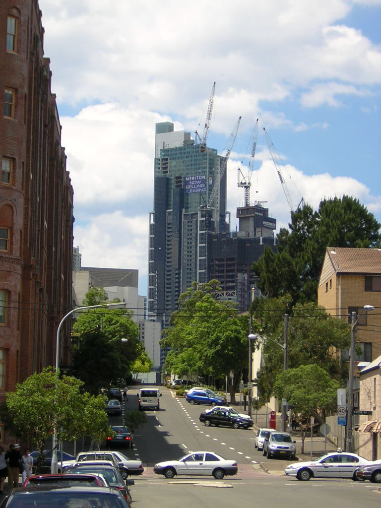 Taken early 2004.